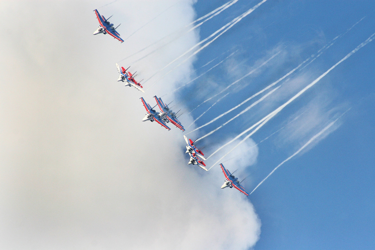 Strizhi and Russian Knights group flight on Maks 2007